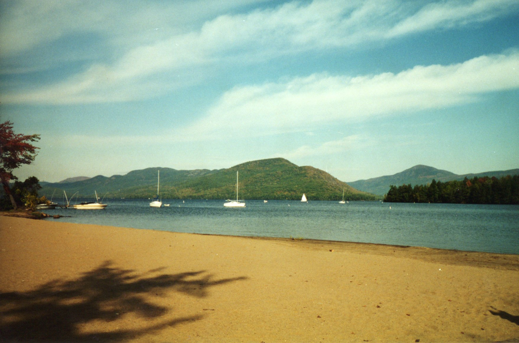 New York's Lake George. Photo taken at marina near Bolton Landing on the lakes western shore, fall 1999. H.G. Judd Tongue Mountain is in the center of the picture and Black Mountain is the higher peak to the right, which is on the Eastern shore.